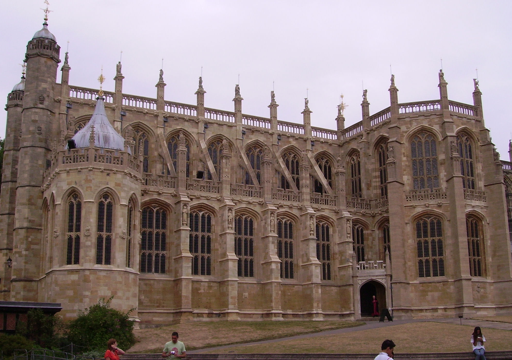 Windsor Castle in Windsor, United Kingdom